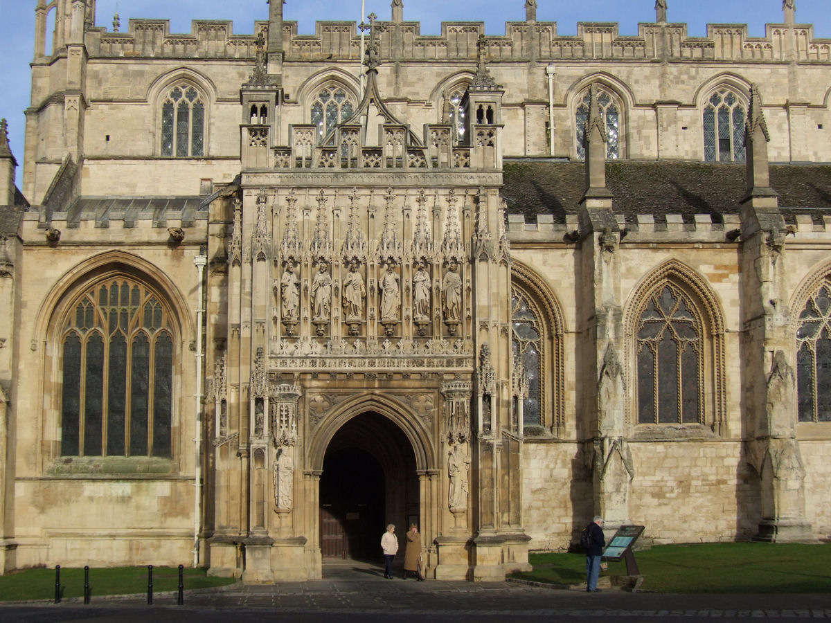 Gloucester cathedral, Gloucester, England - South portal